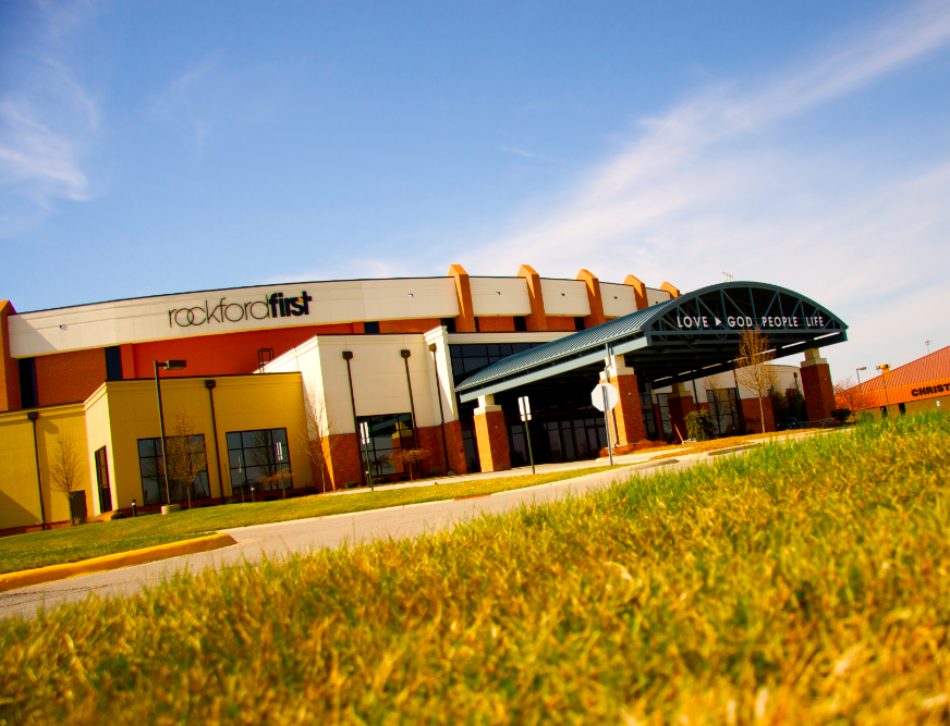 This is a picture of Rockford First Church in Rockford, IL in 2011